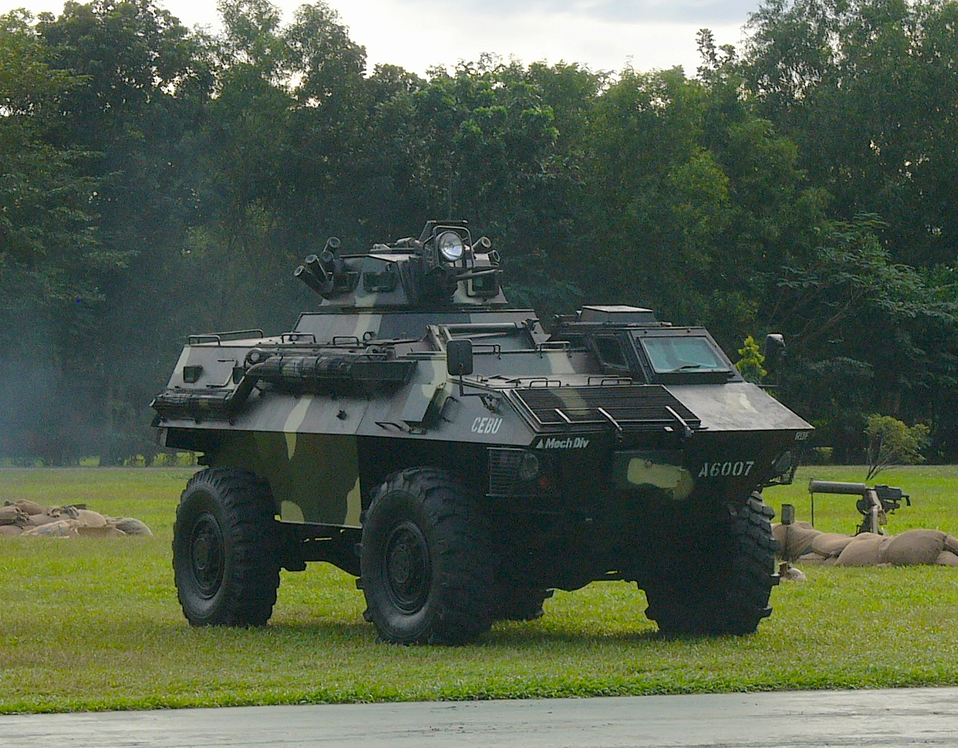 This Philippine Army Mechanized Division GKN Simba Armored Fighting Vehicle is shown at a demonstration, 8 December 2013, Philippine Army Headquarters Parade Grounds, Lawton Avenue, Fort Andres Bonifacio, Taguig City.